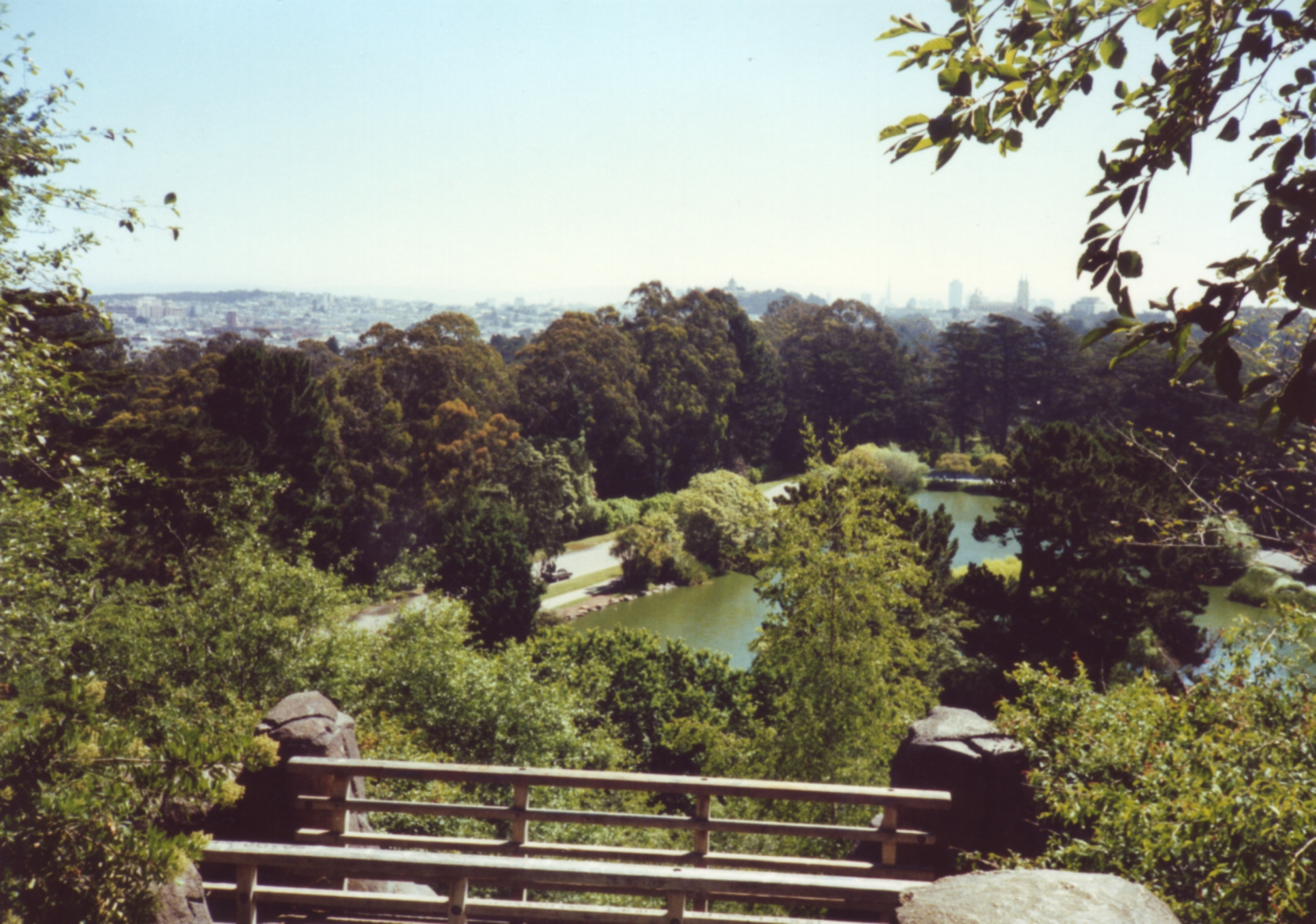 impression of the Golden Gate Park in San Francisco